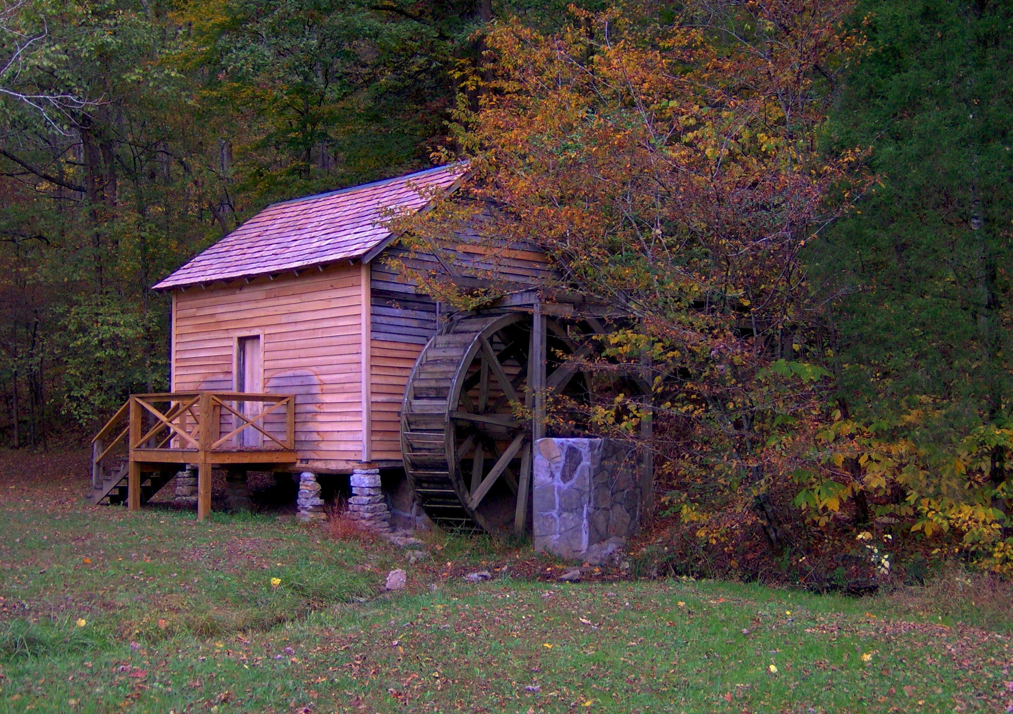 Norton Gristmill at Big Ridge State Park in Union County, Tennessee, in the southeastern United States. The mill was originally built in 1825. The current mill is mostly a replica of the old mill, although the original mill race and millstones remain. The mill is located near the Big Valley and Ghost House Loop trailheads in the eastern section of the park. The pinkish hue is due to the late afternoon soft natural lighting— the actual color is dark yellowish (the color of new lumber).